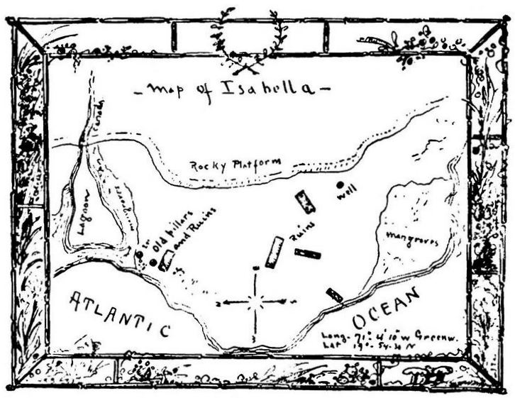 Map of the ruins of the town of Isabella.